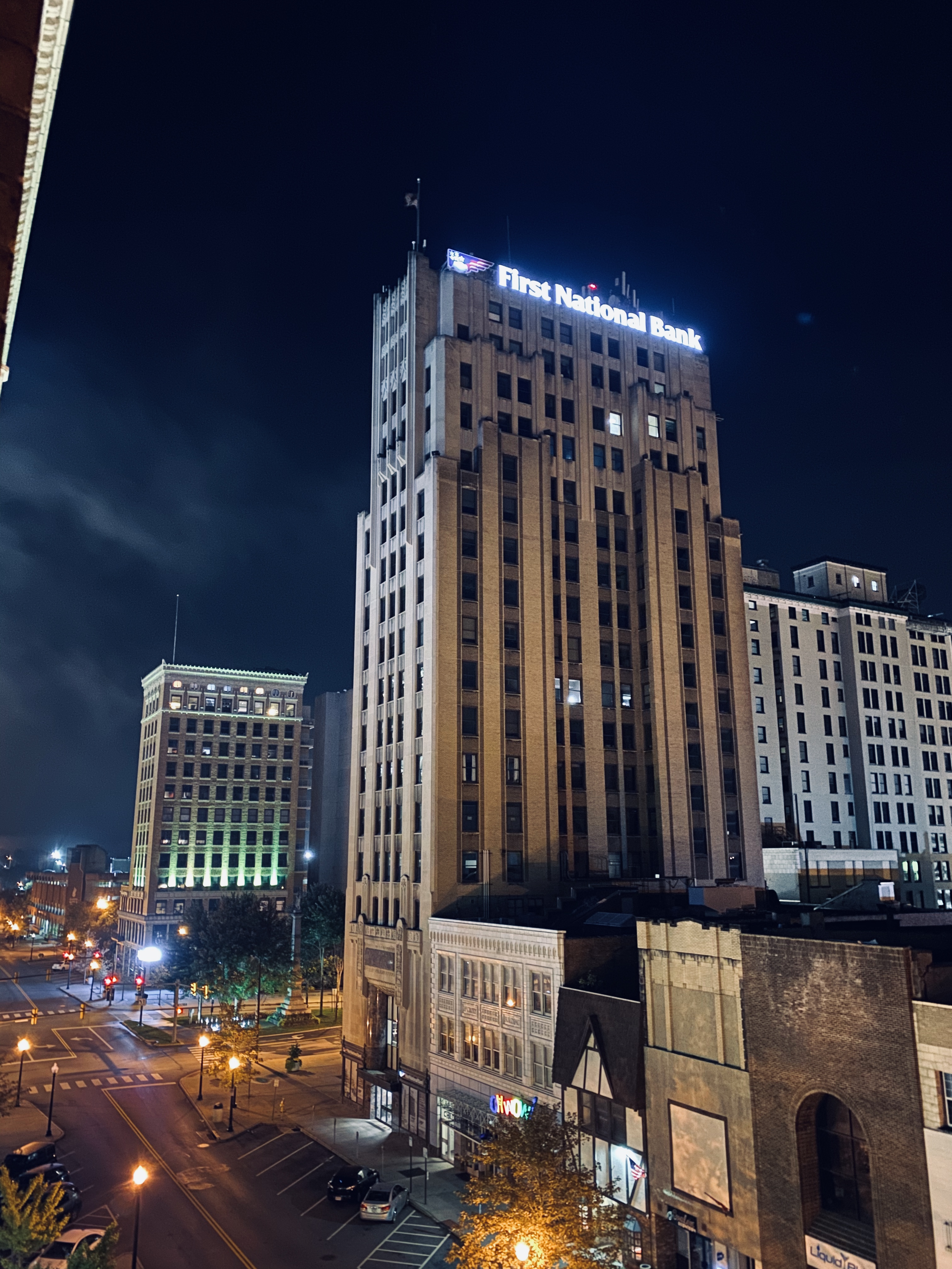 Downtown Youngstown, facing east down West Federal Street.